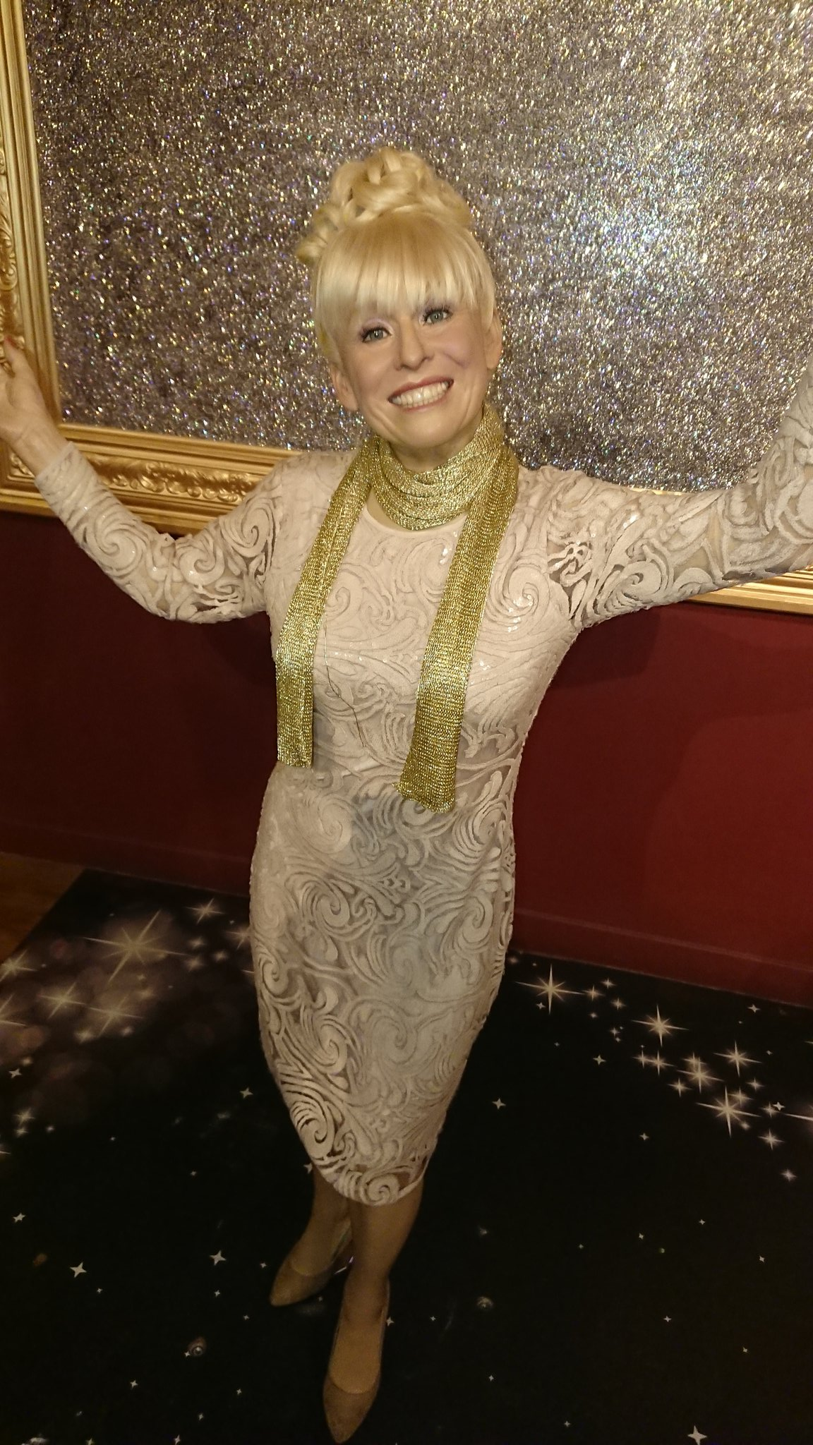 Barbara Windsor posing for a waxwork at Madame Tussauds in Blackpool, Lancashire - 2018